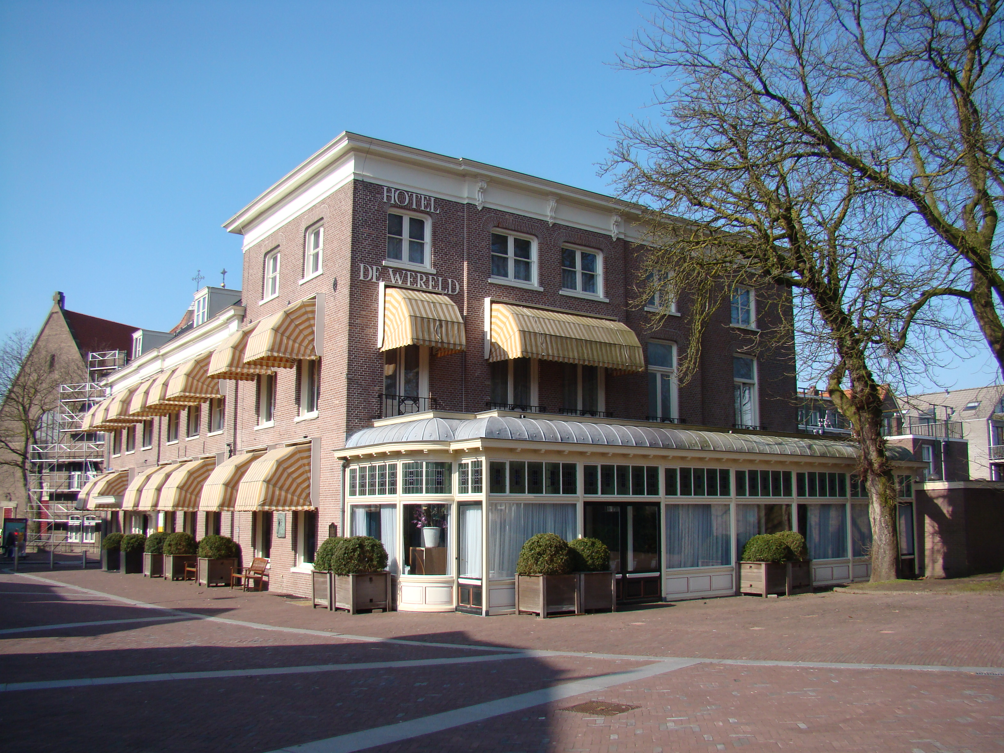 Hotel "De Wereld" at Wageningen